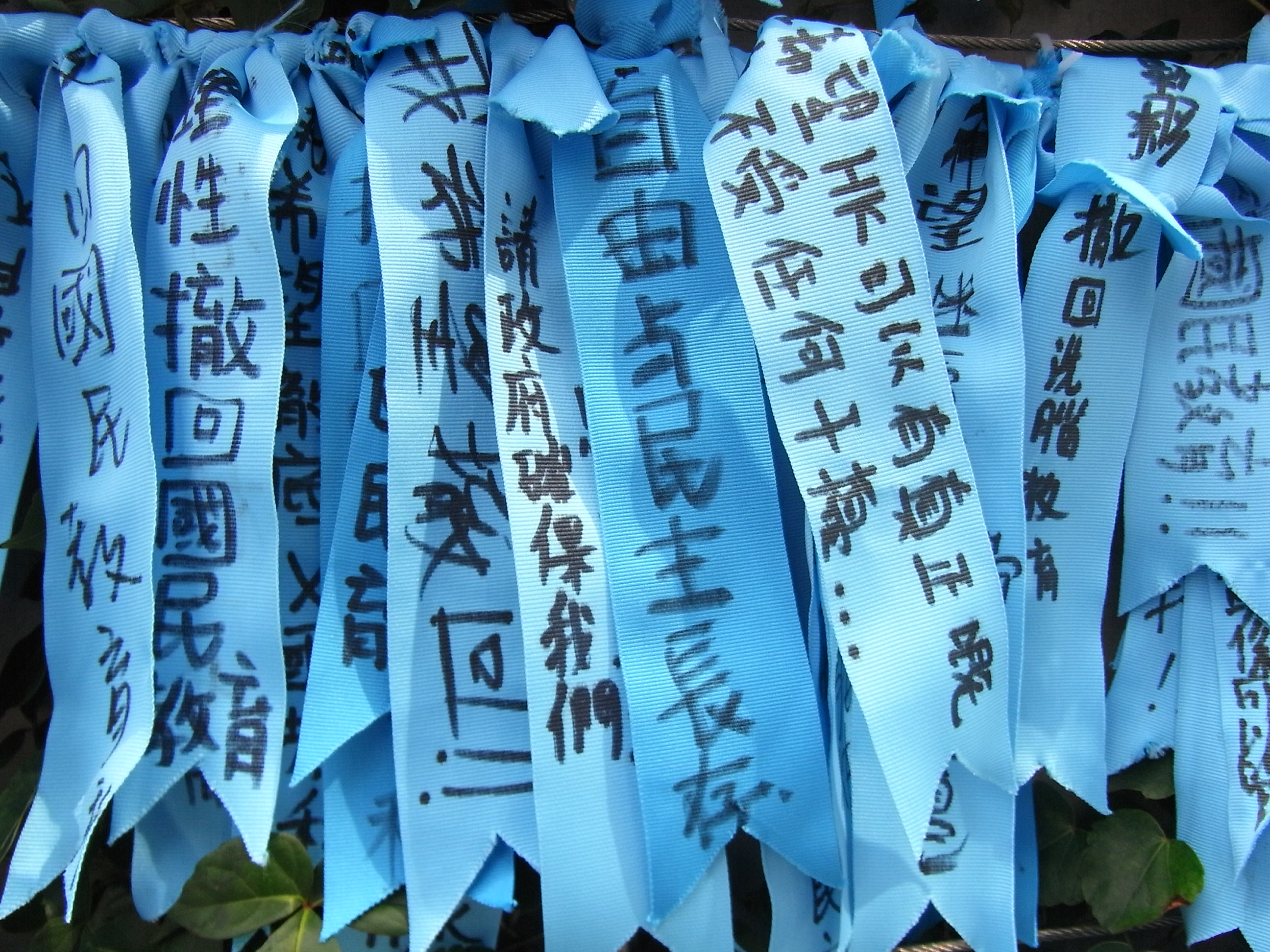 絲帶, Wall of ribbons, Admiralty, Hong Kong